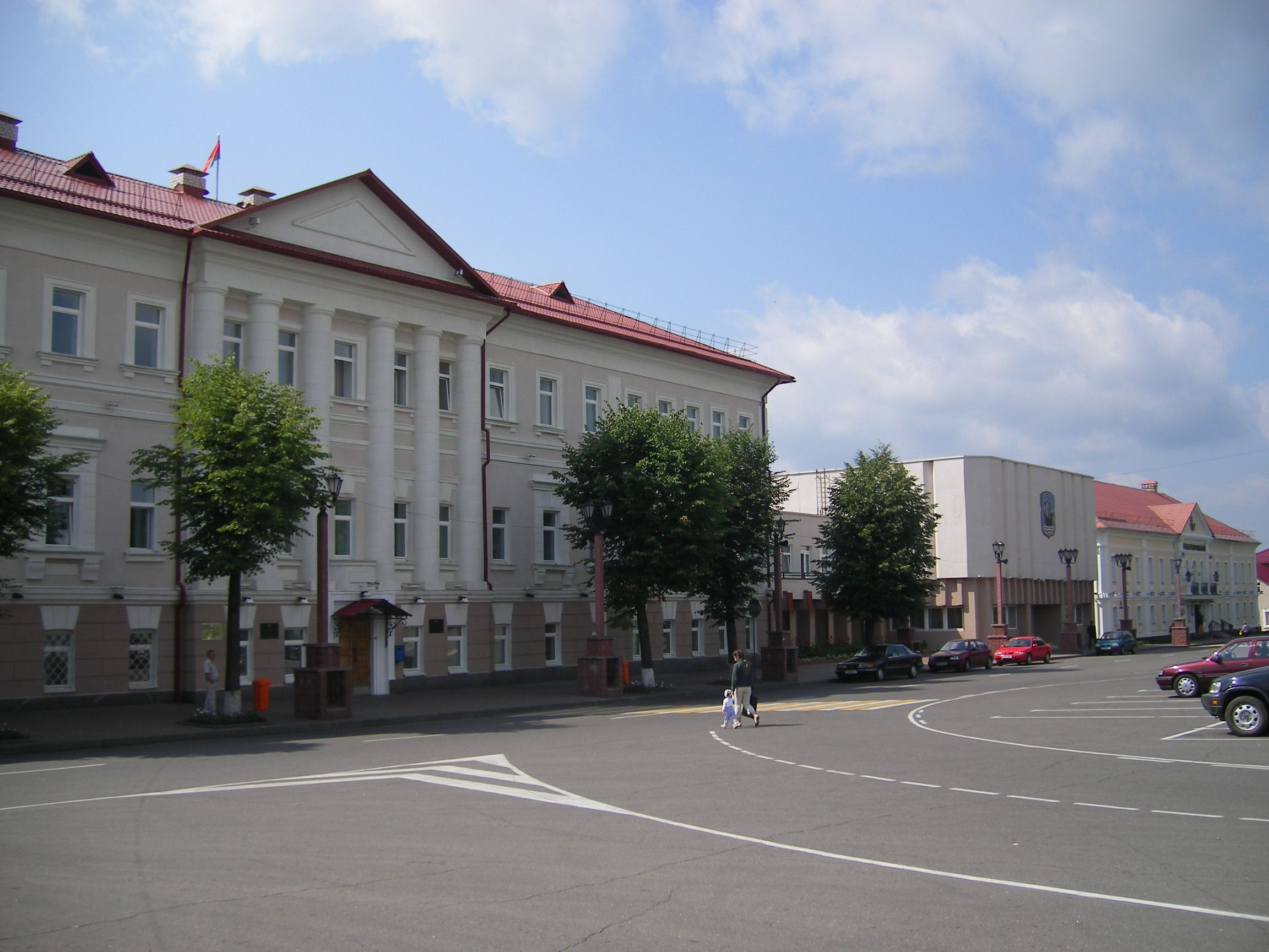 ploshchad Svobody, place of Liberty